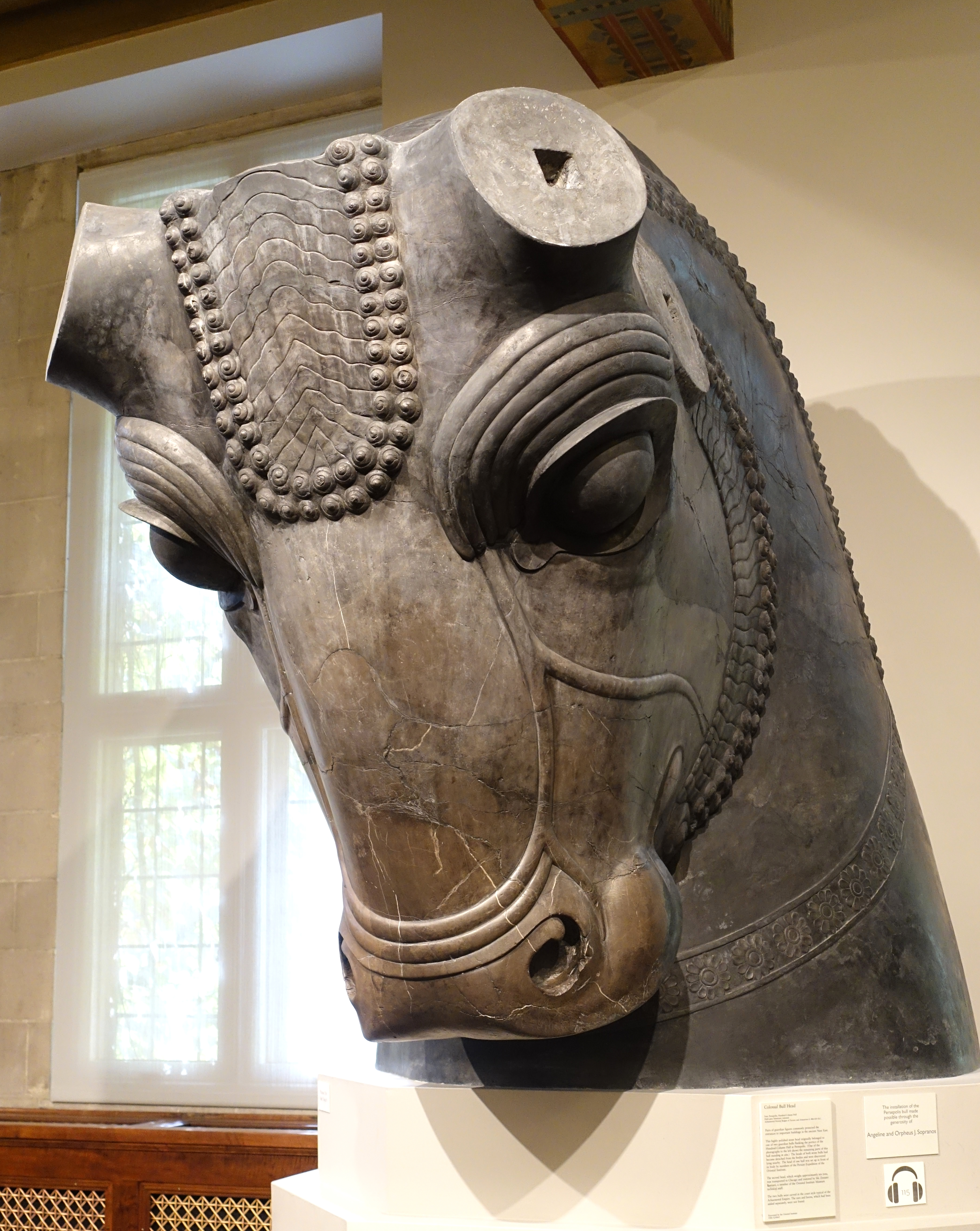 Exhibit in the Oriental Institute Museum, University of Chicago, Chicago, Illinois, USA. This work is old enough so that it is in the public domain.